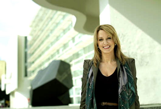 Silvia Coppulo